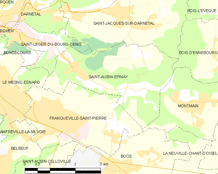 Map of French municipality Saint-Aubin-Épinay